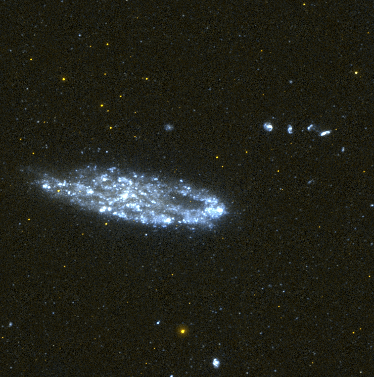 This image of the dwarf spiral galaxy NGC 247 was taken by Galaxy Evolution Explorer on October 13, 2003, in a single orbit exposure of 1600 seconds. The region that looks like a "hole" in the upper part of the galaxy is a location with a deficit of gas and therefore a lower star formation rate and ultraviolet brightness. Optical images of this galaxy show a bright star on the southern edge. This star is faint and red in the Galaxy Evolution Explorer ultraviolet image, revealing that it is a foreground star in our Milky Way galaxy. The string of background galaxies to the North-East (upper left) of NGC 247 is 355 million light years from our Milky Way galaxy whereas NGC 247 is a mere 9 million light years away. The faint blue light that can be seen in the Galaxy Evolution Explorer image of the upper two of these background galaxies may indicate that they are in the process of merging together.